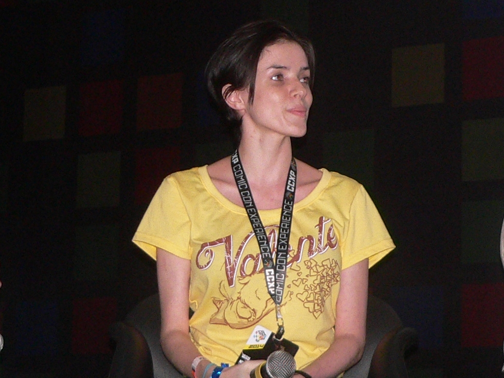 Brazilian comic artist Lu Caffagi at the 2014 Comic Con Experience in São Paulo, Brasil